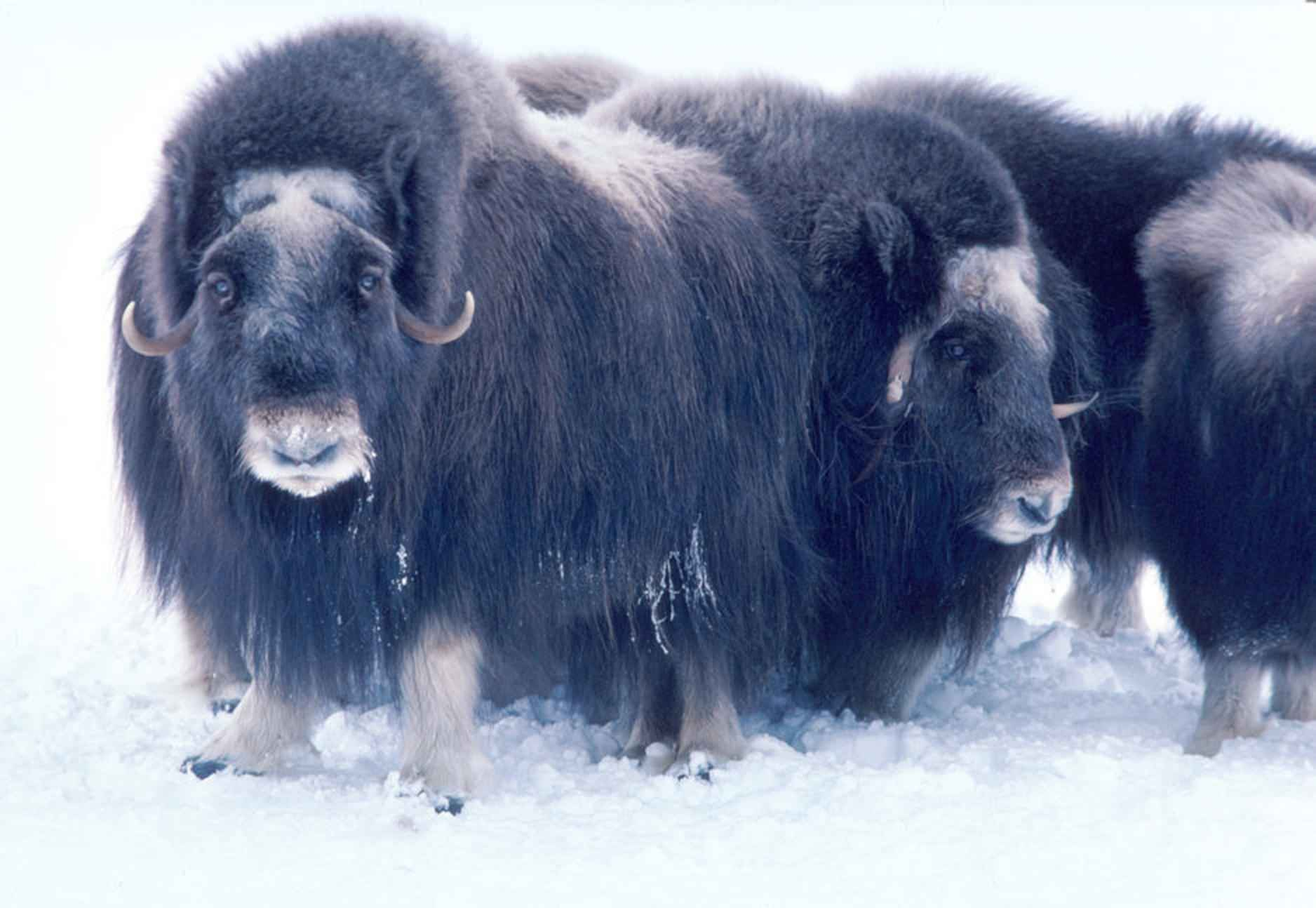 Image title: Adult musk ox bulls animals Image from Public domain images website